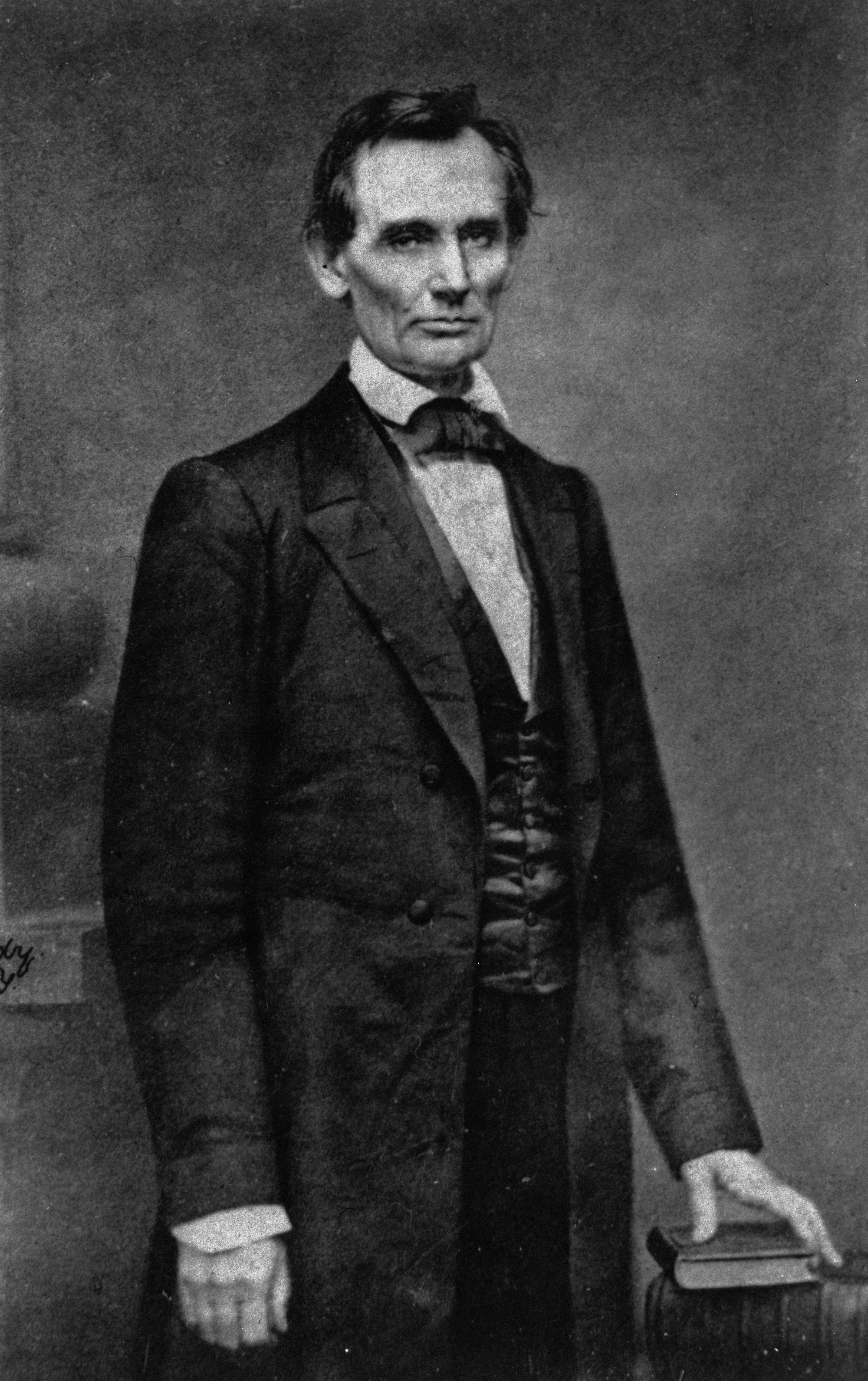 The most famous of the beardless poses, taken only a few hours before Lincoln delivered his Cooper Union address. That speech and this portrait, Lincoln afterwards said, put him in the White House